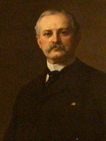 Portrait of Massachusetts Governor Roger Wolcott. Portrait painted by Frederic Porter Vinton in 1904.